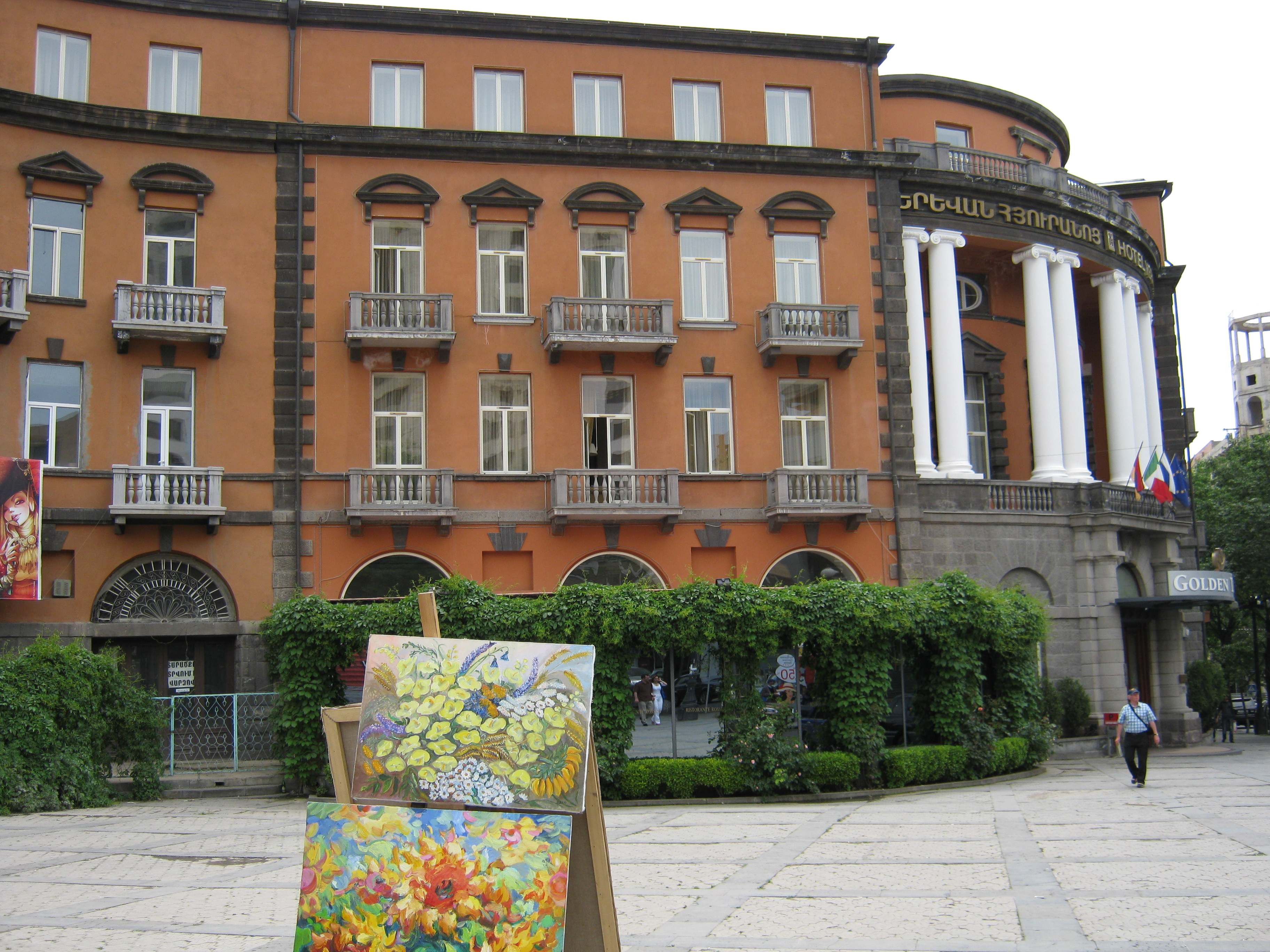 Royal Tulip Hotel Yerevan